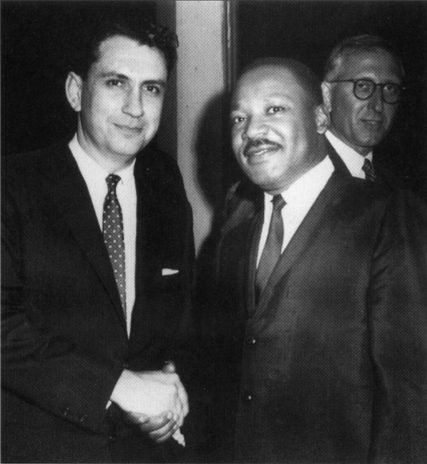 Pennsylvania Senator Arlen Specter with Civil Rights activist Martin Luther King Jr